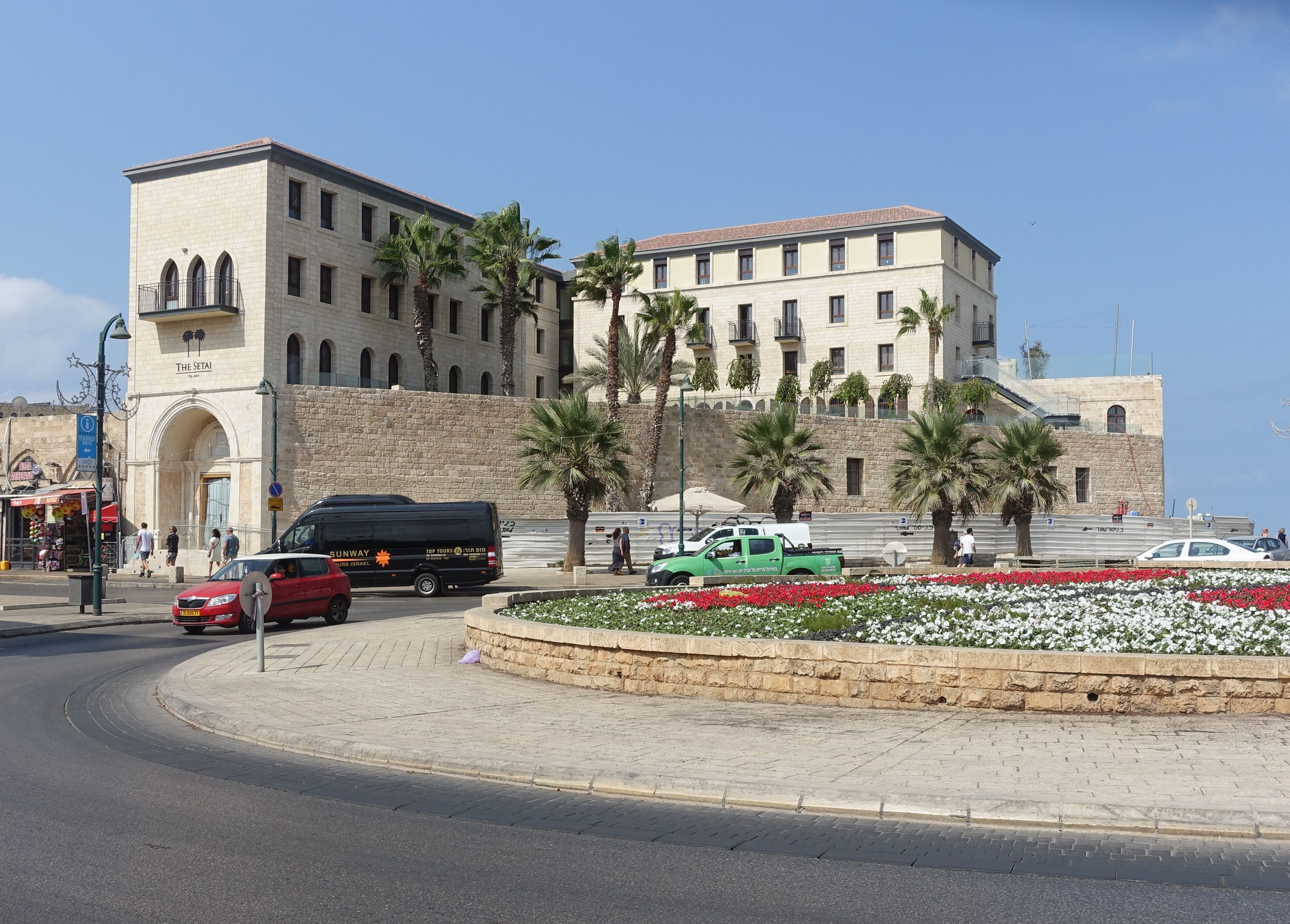 The Setai